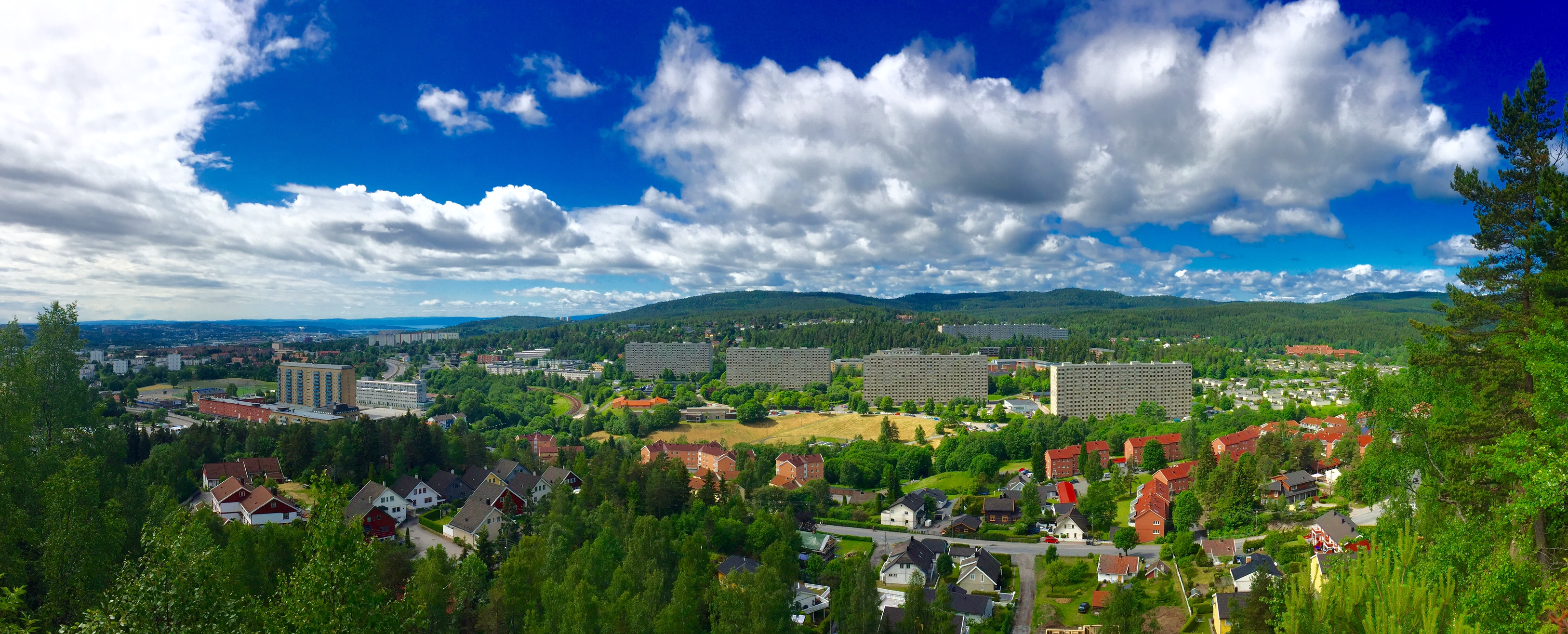 Grorud og Ammerud sett fra Romsås